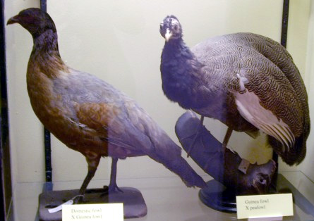 Own work. Domestic fowl × Guineafowl hybrid (left) and Guineafowl × Peafowl hybrid (right), Rothschild Museum (Tring). Photo taken of specimens ant Rothschild Zoological Museum, Tring, England.